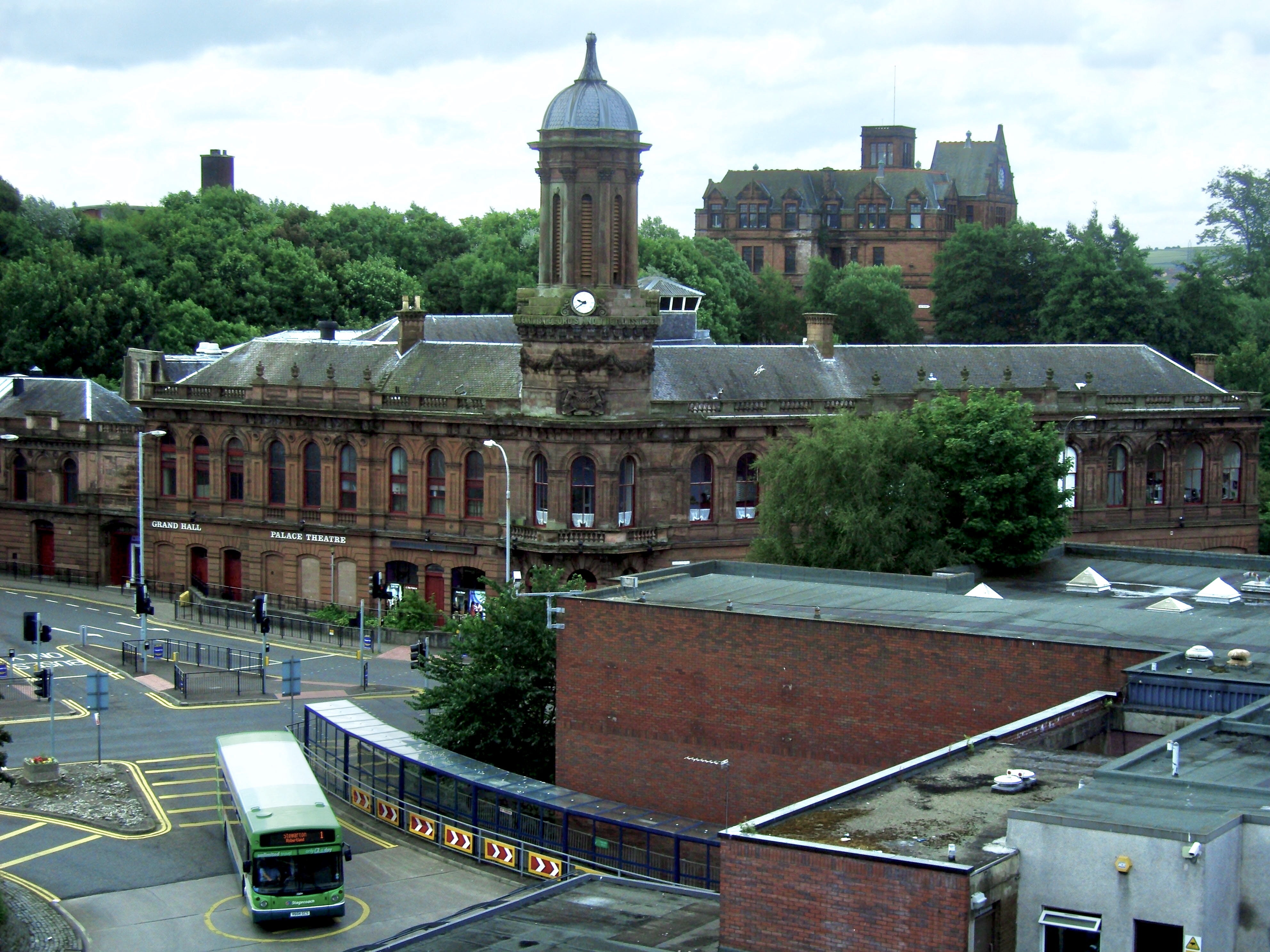 Kilmarnock